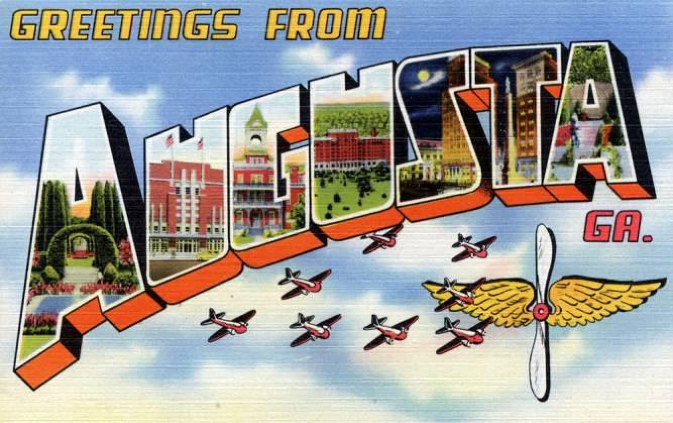 Army Air Forces - Postcard - Daniel Field Augusta Georgia